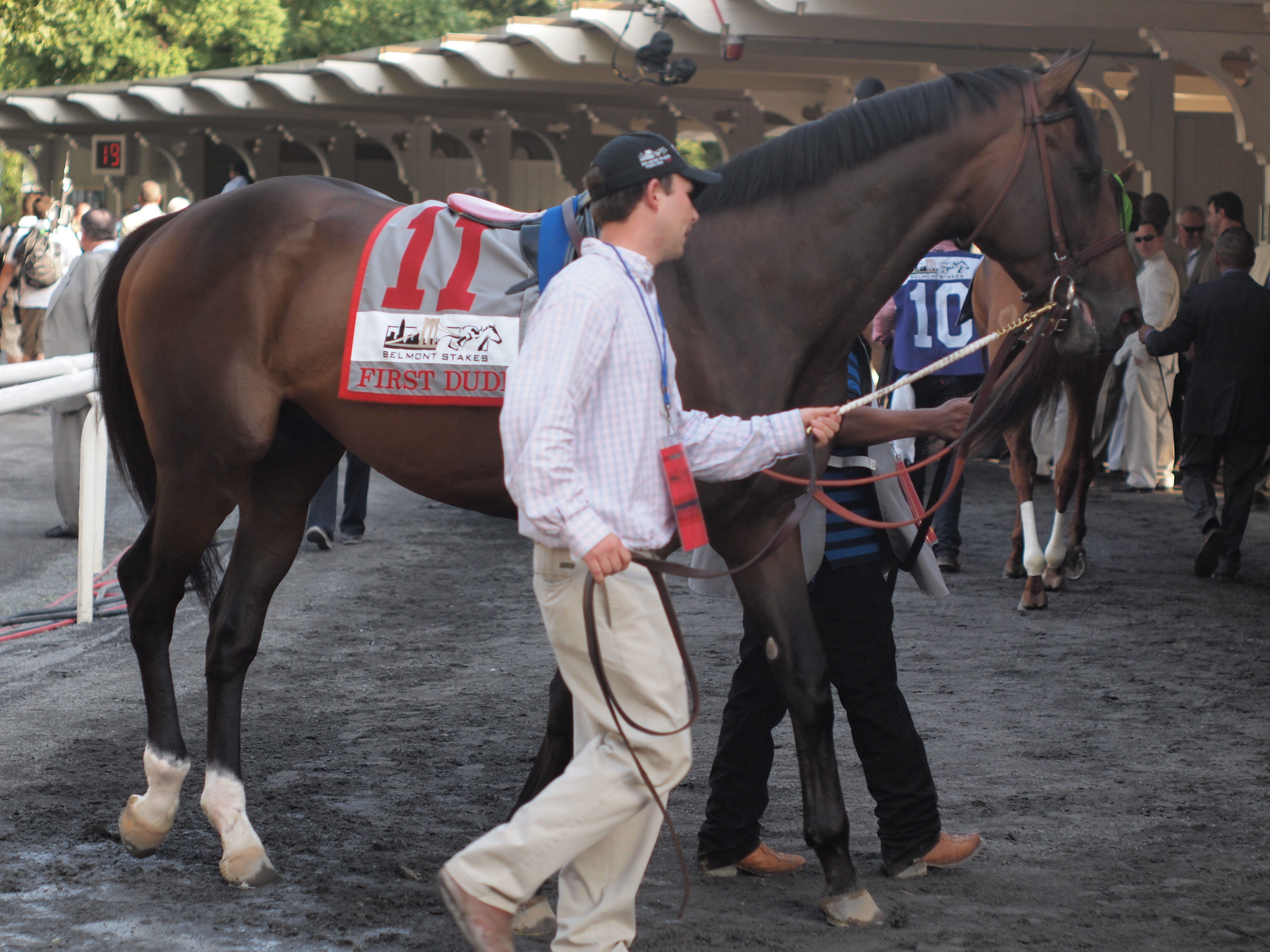 Thoroughbred racehorse First Dude at the 140th Belmont Stakes in 2010. He finished third.